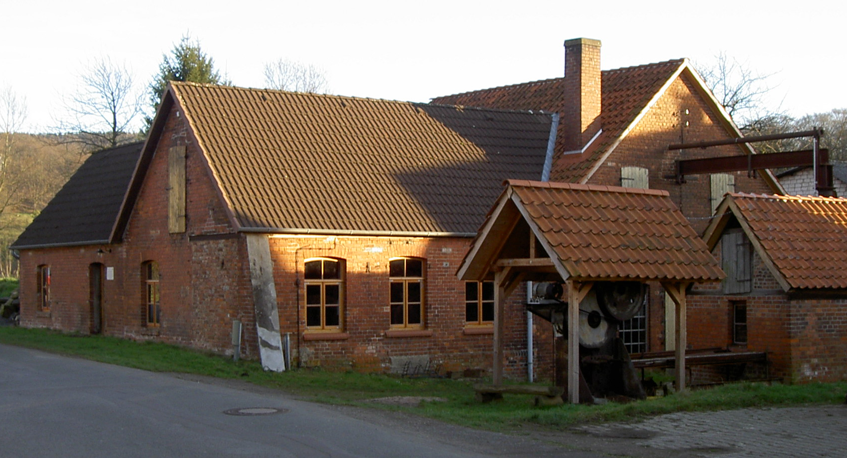 Unterer Eisenhammer Industrial Museum in Exten, Rinteln, Germany